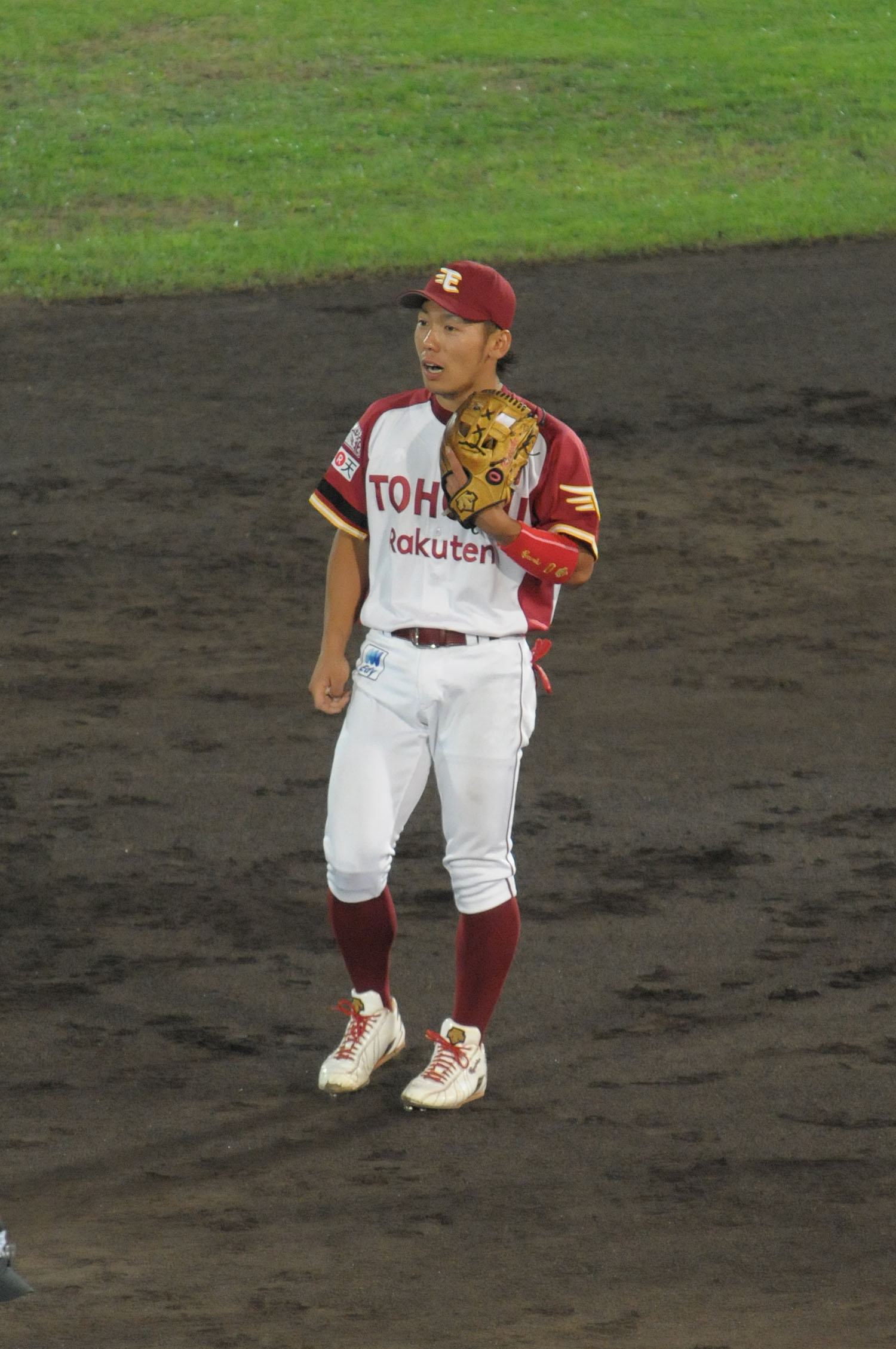 Kensuke Uchimura, infielder of the Tohoku Rakuten Golden Eagles, at Akita Prefectural Baseball Stadium.